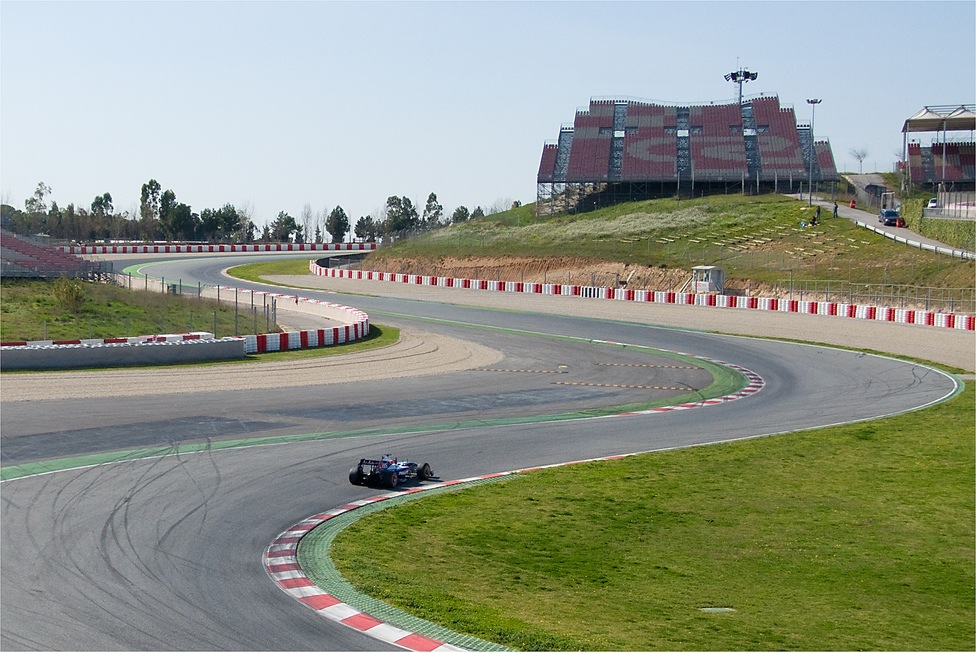 Nakajima driving the Williams FW31 at the Circuit de Catalunya in pre-season testing 1/1000s - F/14 - 36mm - ISO720